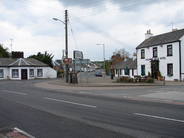 Crocketford or Ninemile Bar A quiet moment on the busy A75 that cuts through Crocketford. Opposite is the A712 for New Galloway, on the junction is Ninemilebar Toll-house (C18), to the right is the Galloway Arms with the local store/post office just beyond. Crocketford is strictly a hamlet as it has no church, despite being founded in 1787 by a religious sect, known as the Buchanites.